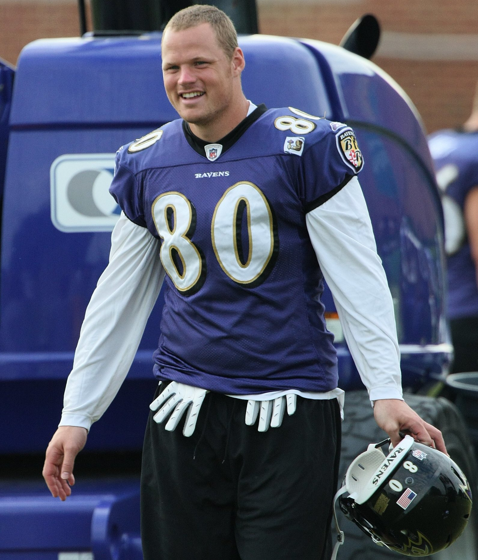 Isaac Smolko at Baltimore Ravens Training Camp on August 21, 2009